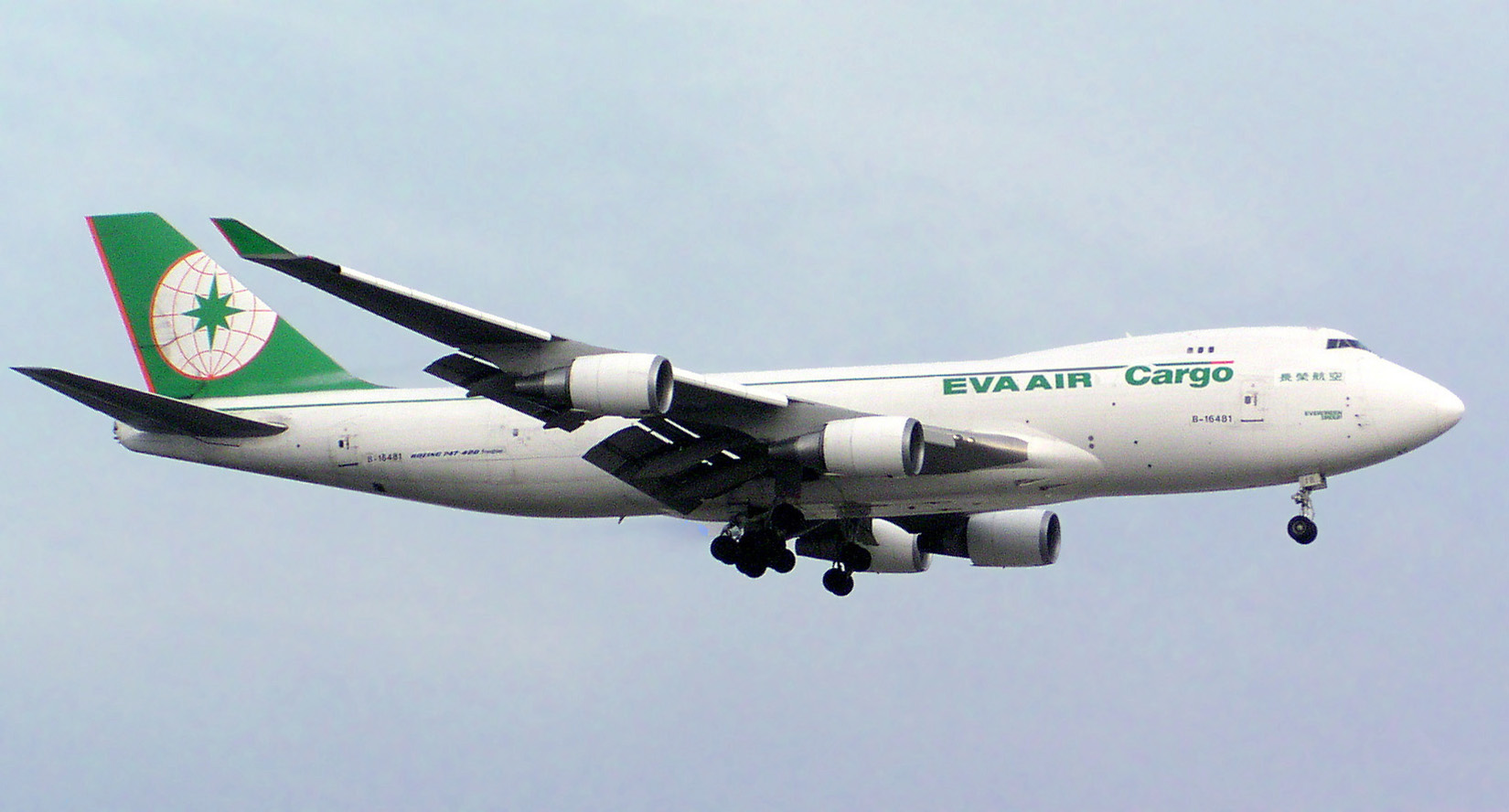 Eva Air Boeing 747-400F approaching Frankfurt/Main airport, 14. November 2003